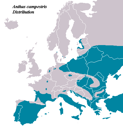 Approximate distribution map of the Tawny Pipit (Anthus campestris)